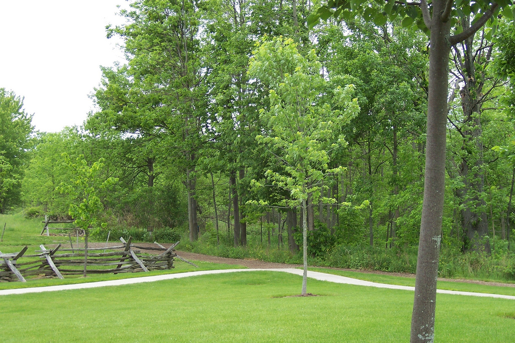 Looking towards the entrance to the Sacred Grove, Palmyra, New York. It was inside this grove that Joseph Smith, Jr. claimed to have his First Vision, that would later lead to the establishment of The Church of Jesus Christ of Latter-day Saints